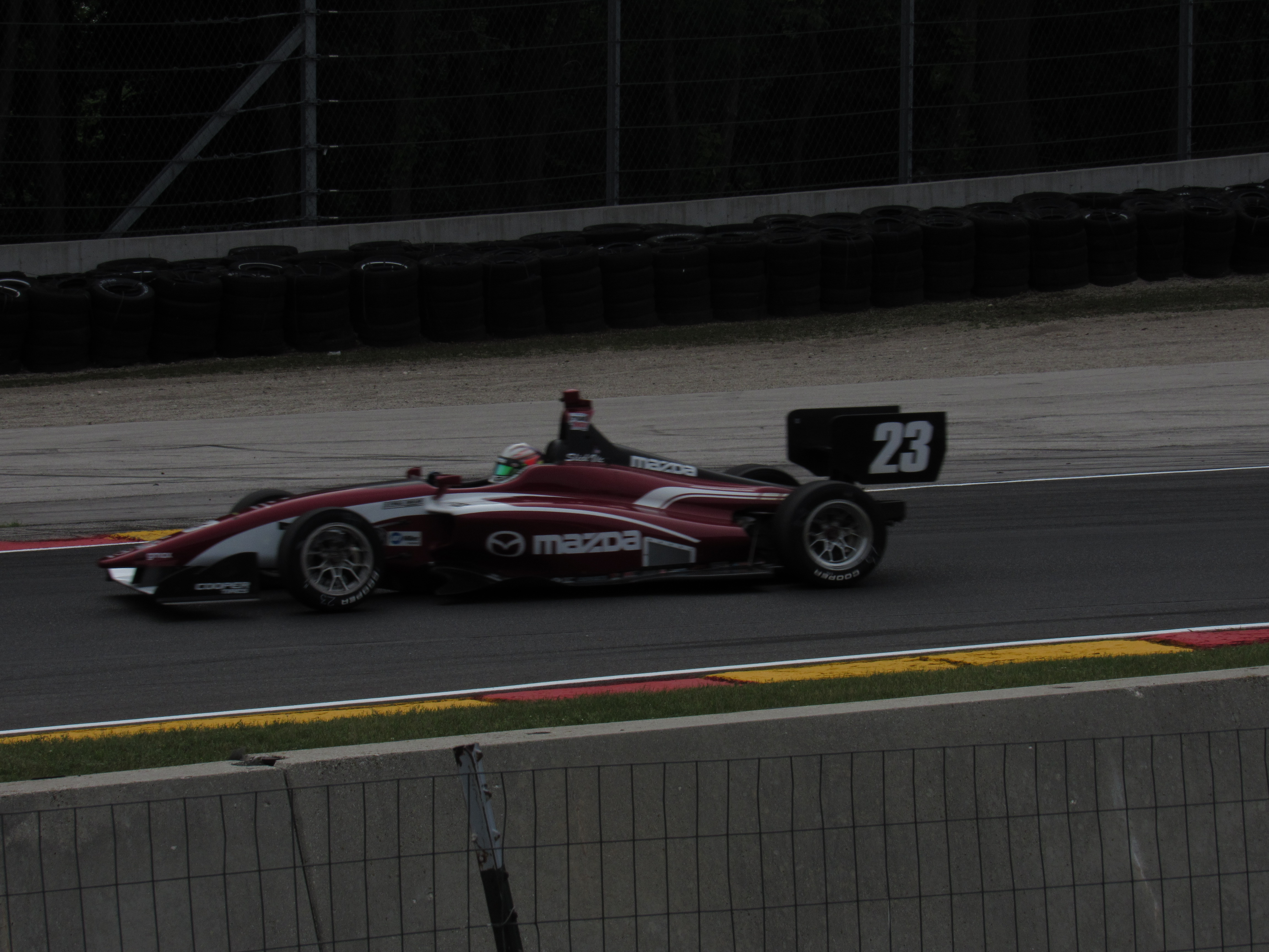 Victor Franzoni during qualifying for an Indy Lights race at ROad America in 2018